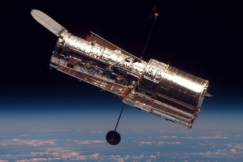 The Hubble Space Telescope (HST) begins its separation from Space Shuttle Discovery following its release on mission STS-82. Cropped version of File:Hubble 01.jpg